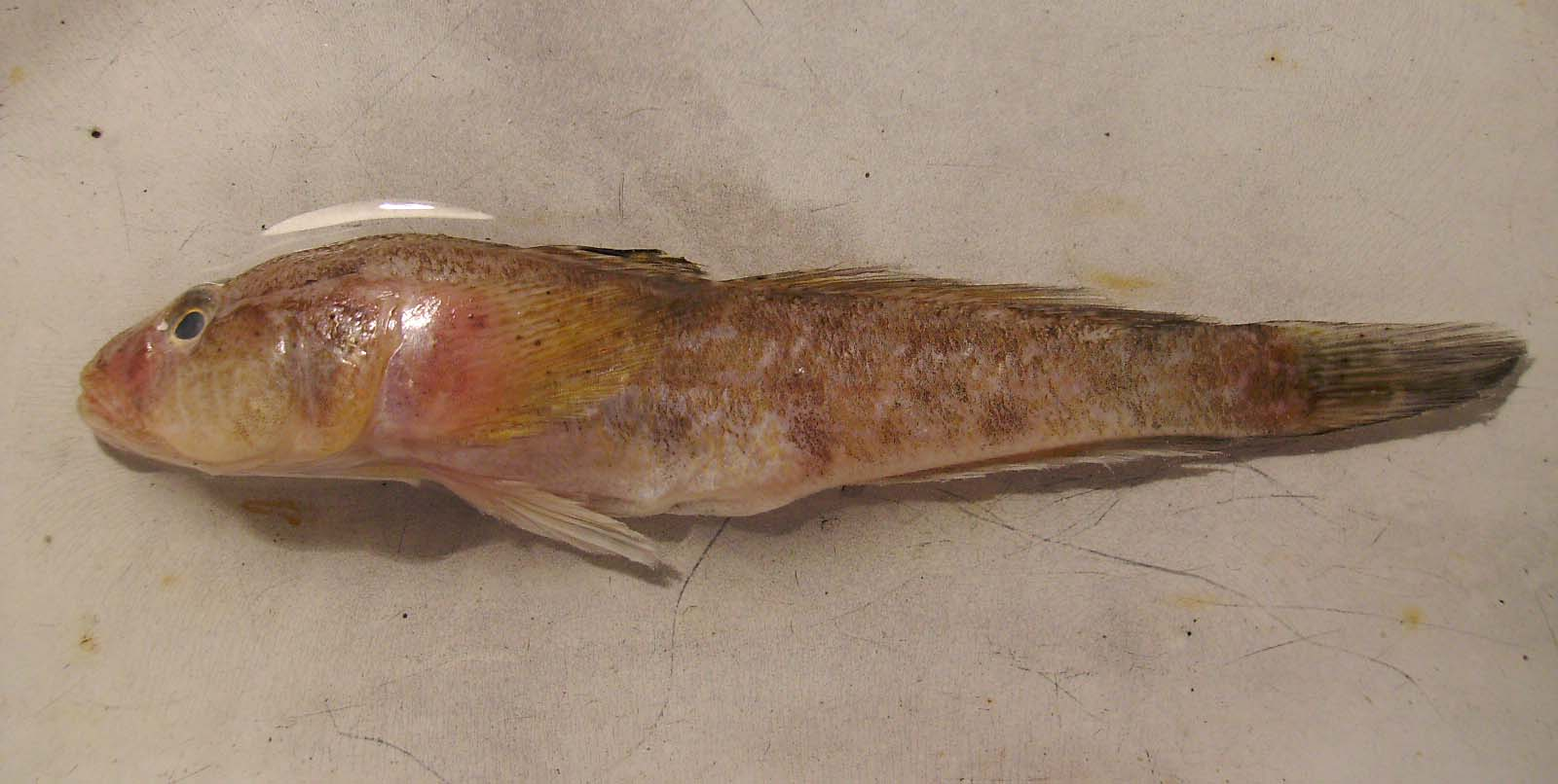 The Syrman Goby (Ponticola syrman) from the Budaki Lagoon, South-Western Ukraine